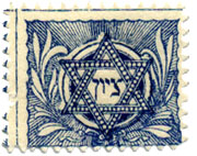 Ephraim Moses Lilien, Stamp designed for the Keren Kayemet (KKL), Vienna, 1901-2